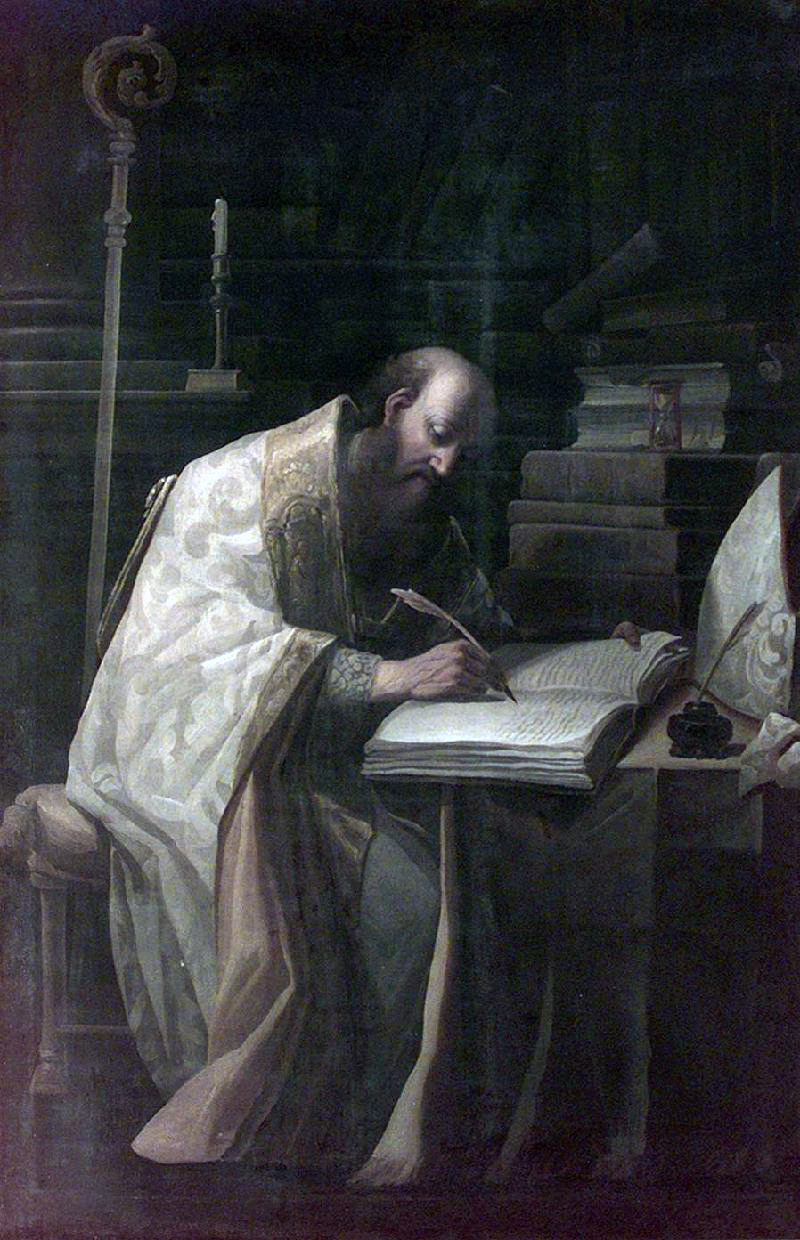 Augustinus of Hyppo